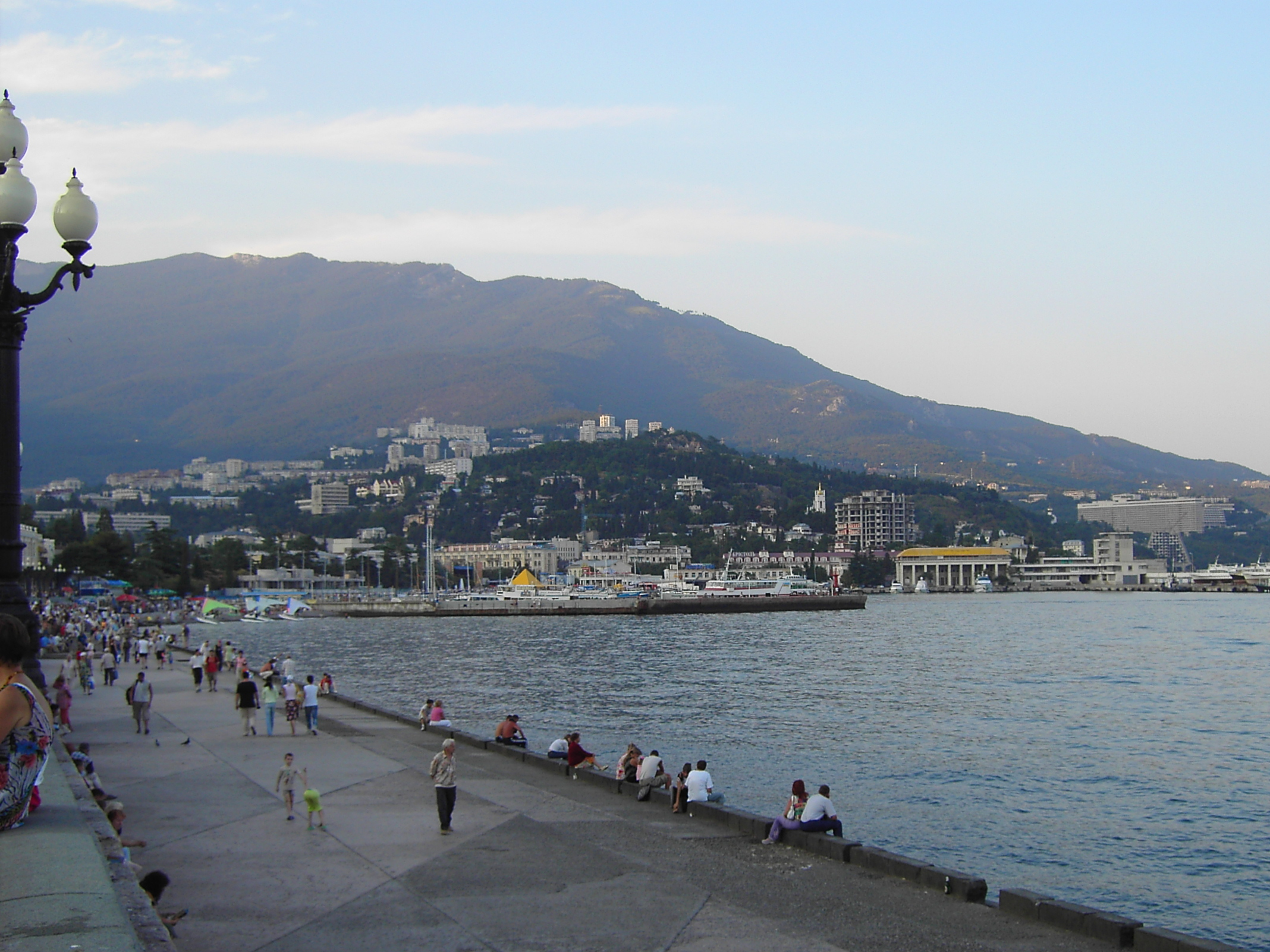 View of the Naberezhna in Yalta.